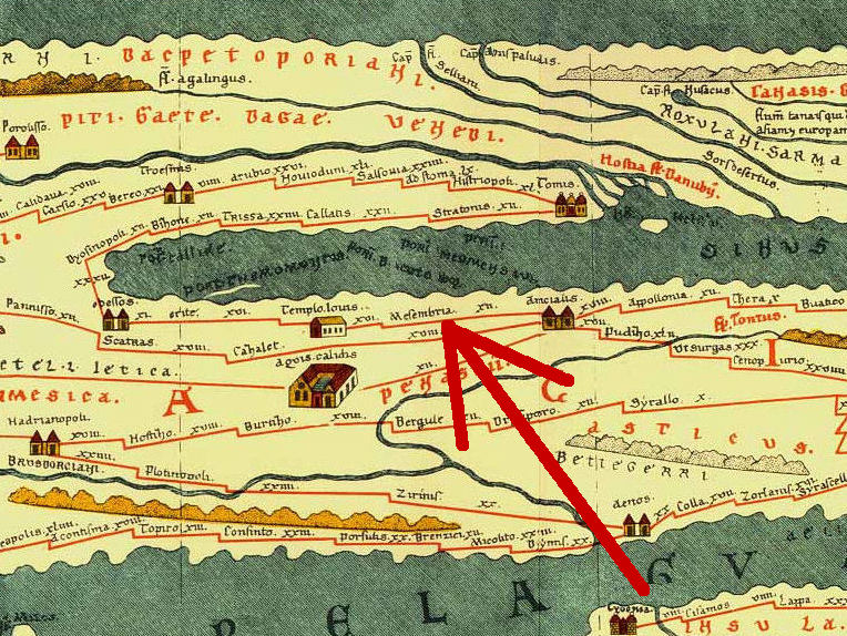 Cutout from Tabula Peutingeriana, 1-4th century CE. Facsimile edition by Conradi Millieri, 1887/1888; the red arrow shows Tabula Peutingeriana places in modern Bulgaria; on the map: Messembria; in modern Bulgaria: city Nesebar